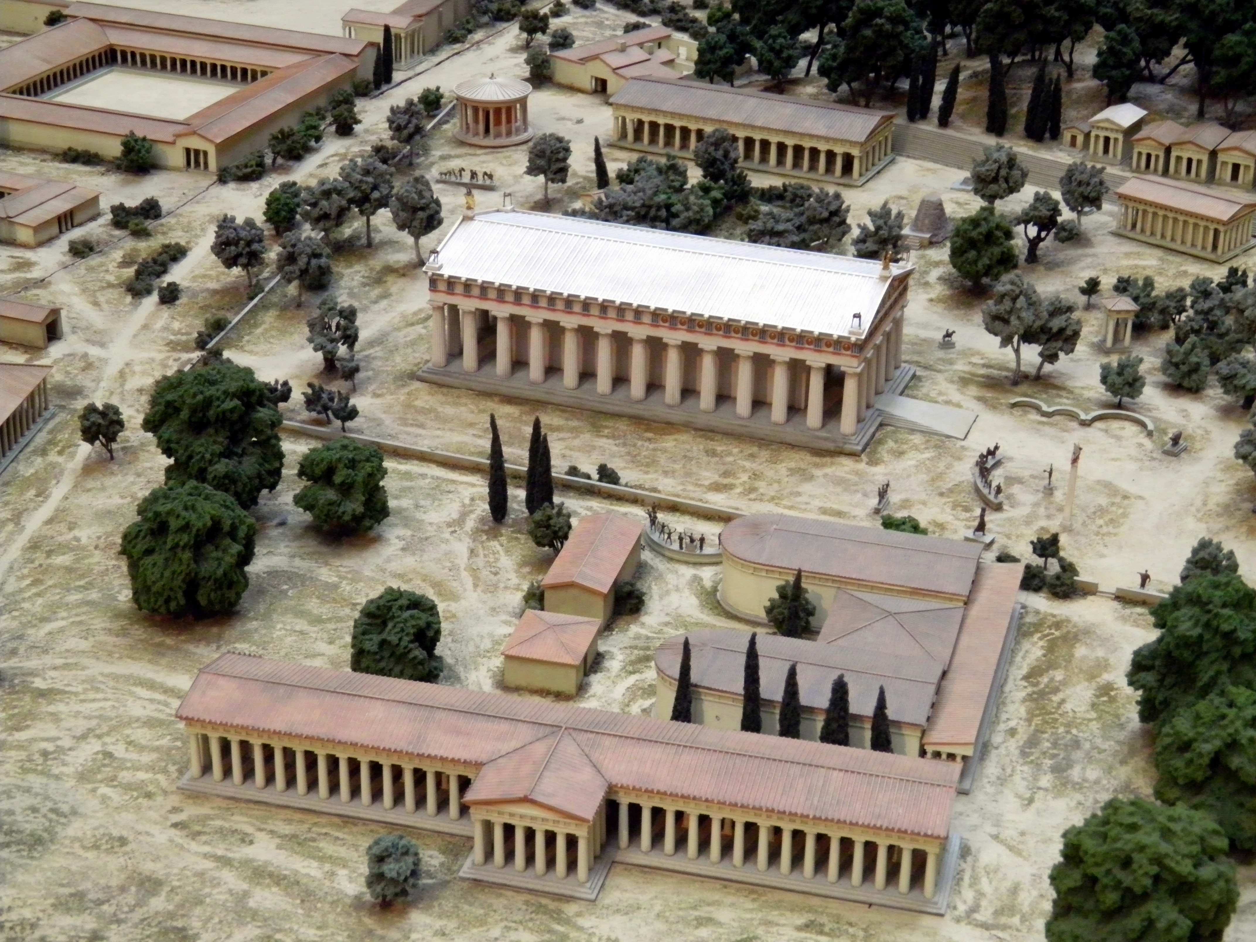 Made in 1980 This model shows the site of Olympia, home of the ancient Olympic Games, as it looked around 100 BC. On a scale of 1:200, it represents the buildings, monuments and landscape of Olympia, but there would also have been thousands of statues. The largest of these was a gold and ivory statue of the god Zeus, over 13 metres tall. Statues were also set up to honour heroes and statesmen and the vast numbers of athletes who had won at the Games. It was like an open-air Olympic hall of fame. Olympia was the oldest sanctuary of Zeus, the supreme god of Greek mythology. The Games were held in his honour, as he was believed to grant athletes their strength and skills. Visitors came to Olympia for the Games every four years since at least 776 BC. The Games lasted for over 1000 years, but finally came to an end when the site was ravaged by invasions, flooding, earthquakes and a decree outlawing pagan cults. The model was commissioned in 1980 for a major exhibition on the Olympic Games at the British Museum. It has since been displayed both in London to coincide with various Olympic Games and also in numerous locations around the world.